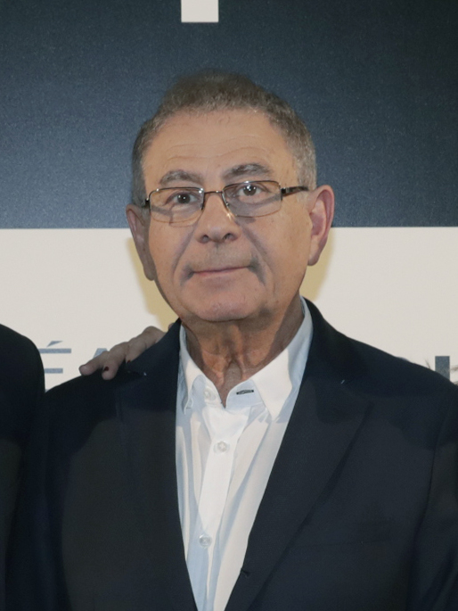 La Real Casa de Correos acoge por primera vez la Mercedes Benz-Fashion Week Madrid. ¡Bienvenidos al corazón de Madrid, acercando la moda a las calles! Enhorabuena Roberto Verino por el fantástico desfile #SS17: lino blanco, rayas azul cielo y algodones, esencia de vuestra firma.